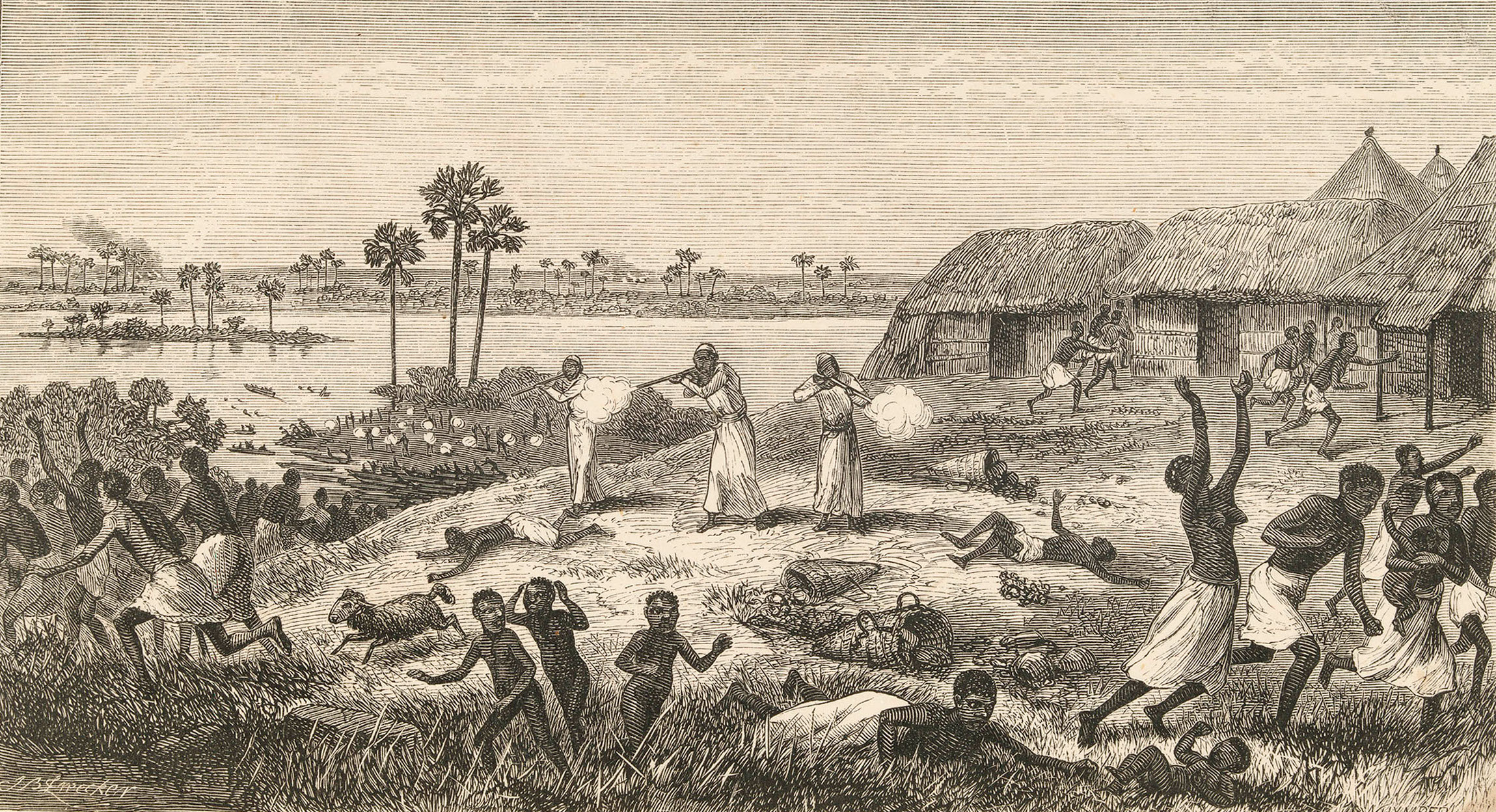 The Massacre of the Manyuema Women at Nyangwe (original caption). From the Journals of David Livingstone. Three men of Dugumbé ben Habib were shooting at the women at the market of Nyangwe. July 15th, 1871